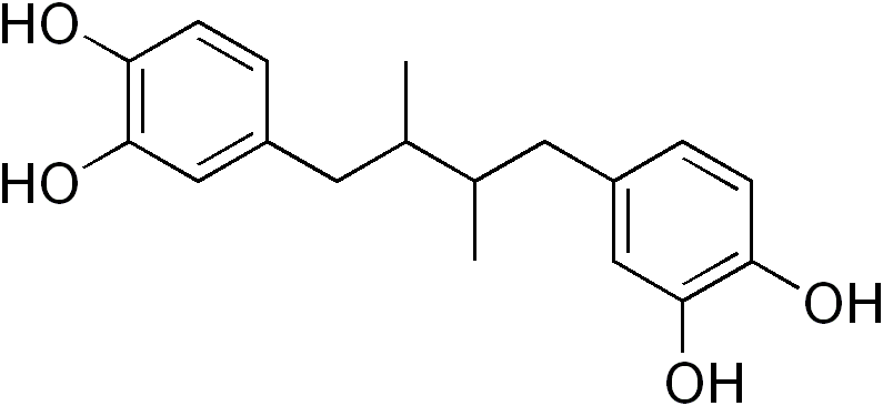 chemical structure of nordihydroguaiaretic acid